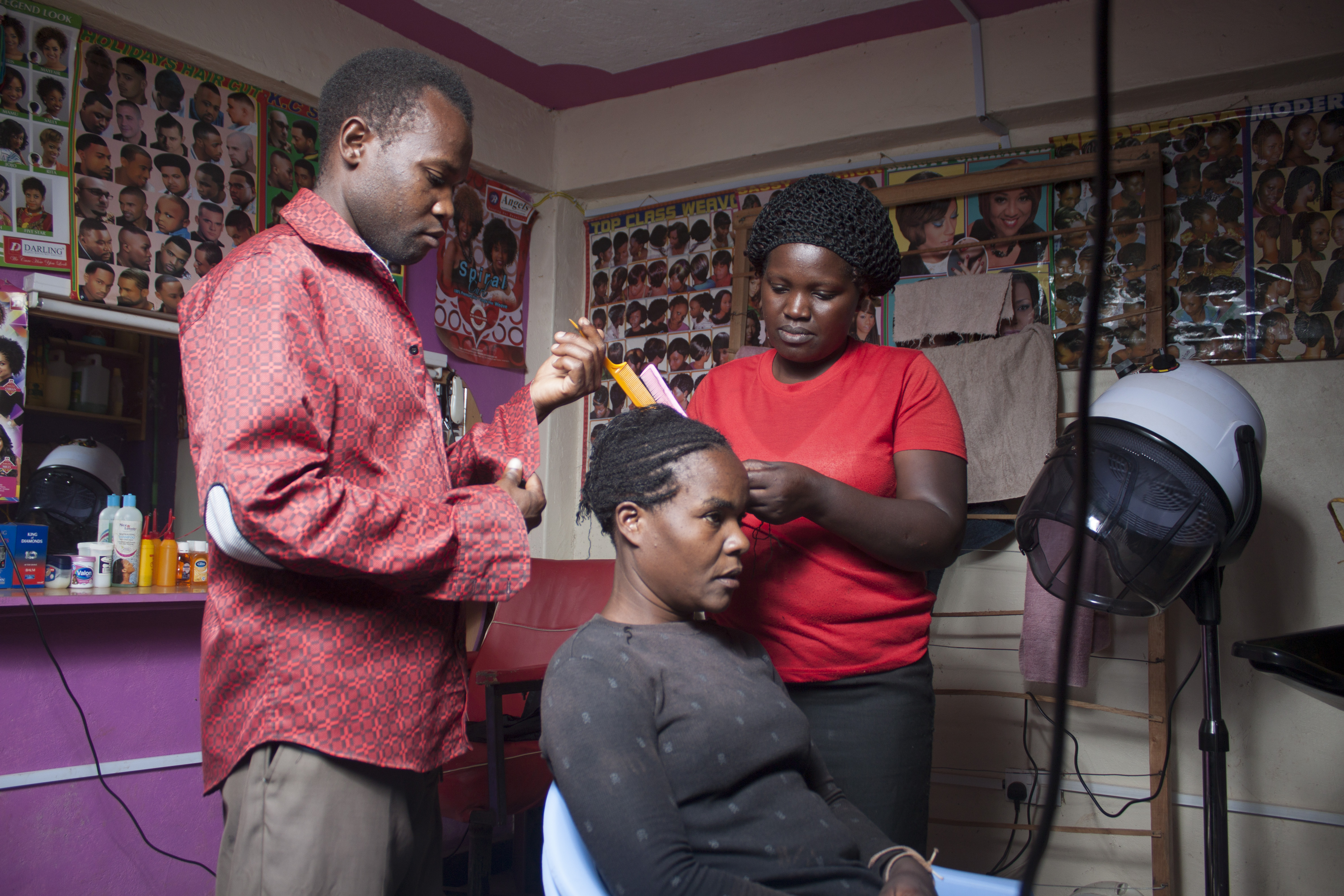 Salonists working on a client in a salon and barber shop in Kisii town, South western Kenya This is an image of "African people at work" from Kenya